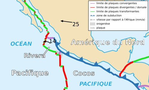 Map of the Rivera Plate